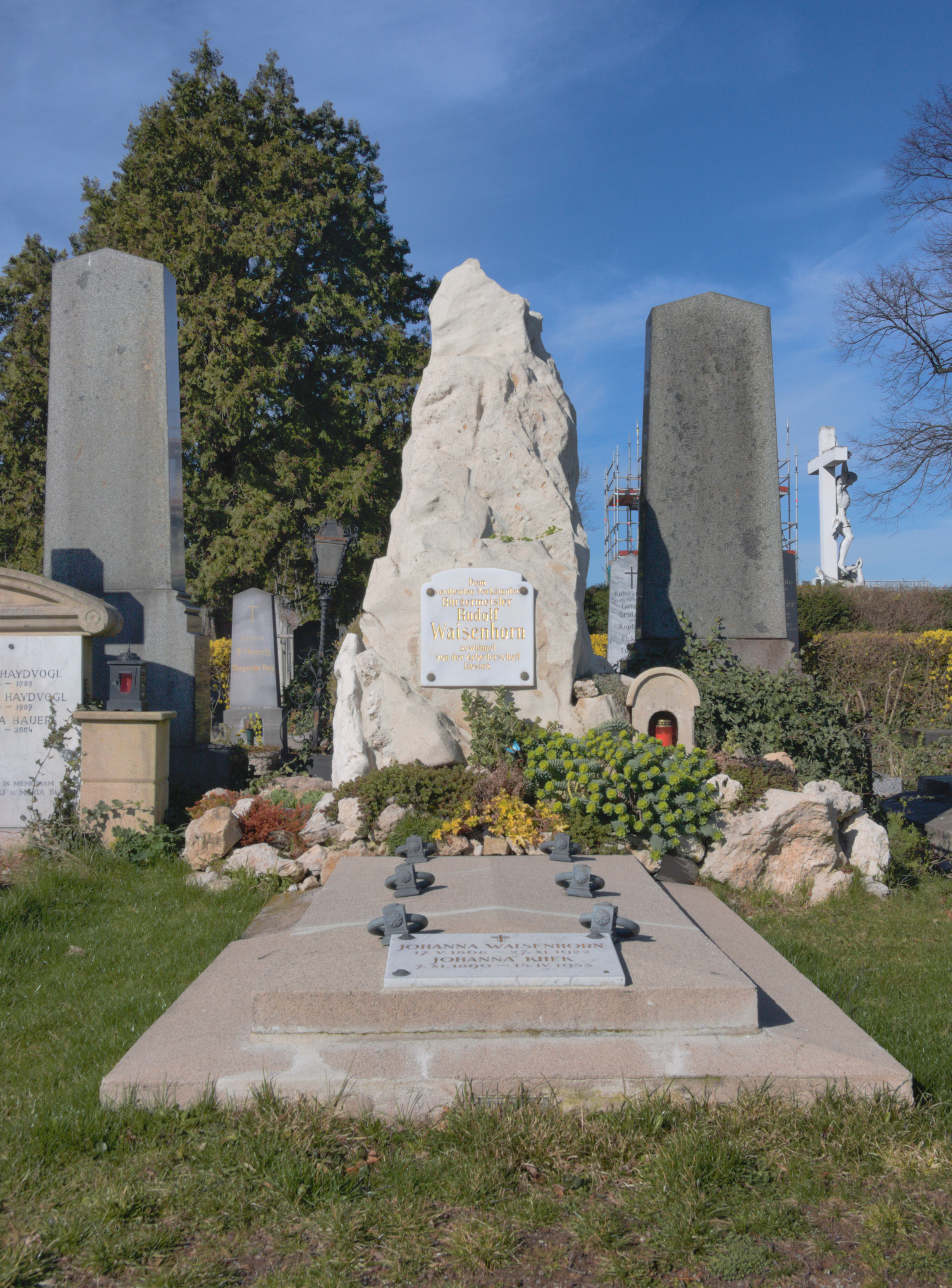 The grave of Rudolf Waisenhorn on the cemetery Liesing in Vienna, Austria